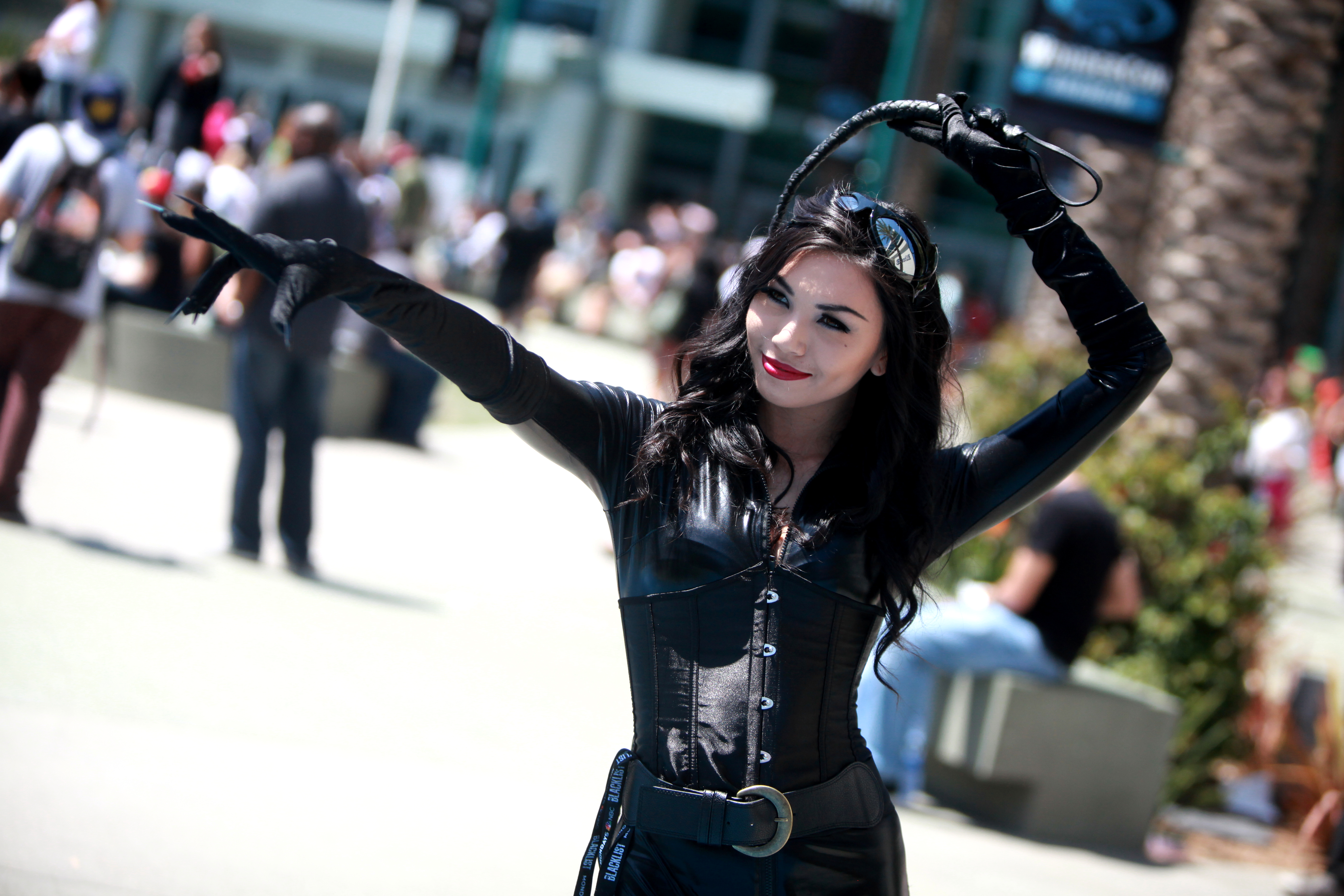 Catwoman cosplayer at the 2014 WonderCon at the Anaheim Convention Center in Anaheim, California.